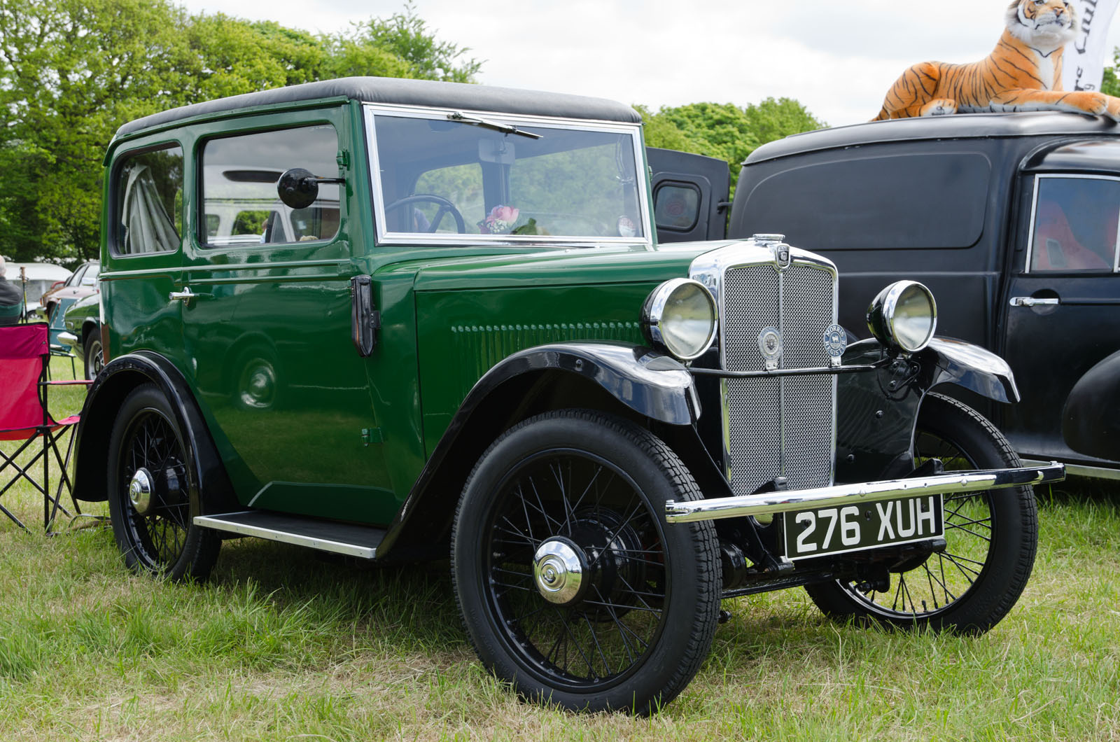 1933 Morris Minor (DVLA) manufactured 1933m 850cc Heskin Hall Steam Fair 2 June 2013